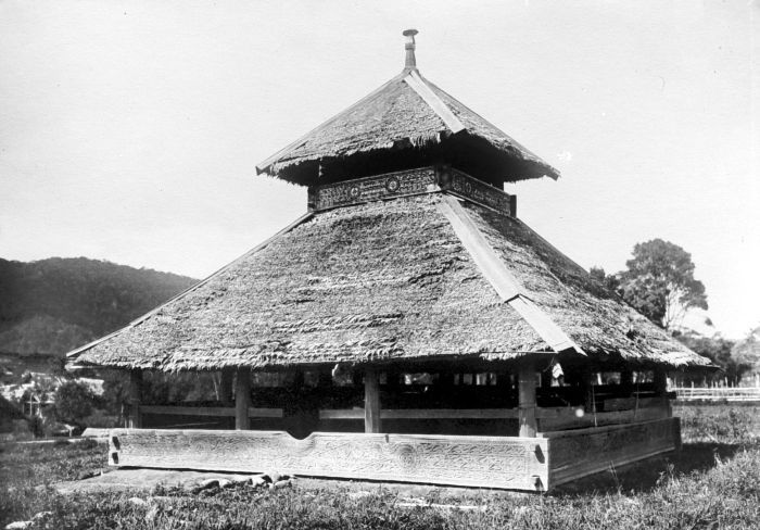 Mosque near Takingeun